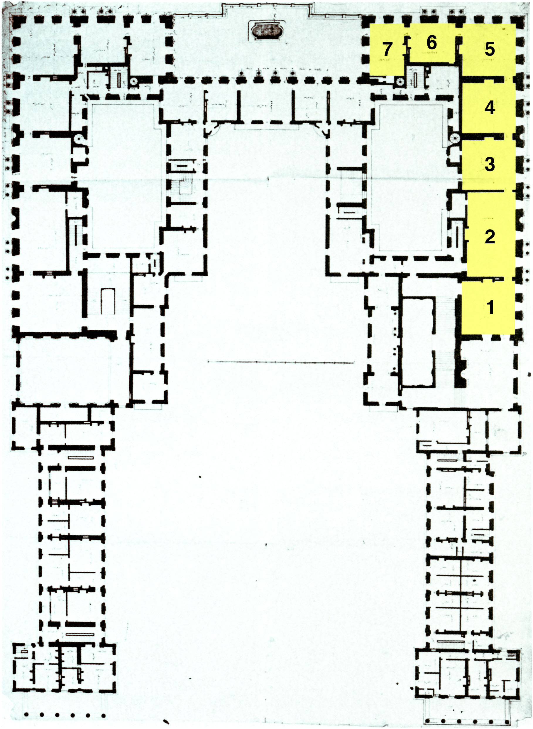 Plan of the main floor (premier étage) of the Palace of Versailles Enveloppe [with the King's apartment marked in yellow] (110 x 80.5 cm, National Museum, Stockholm, Cronstedt Collection, CC 74)